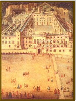 The Royal Palace in Monaco painted in 1732 by Joseph Bresson. This work of art is 275 years old thus in the public domain by virtue of age